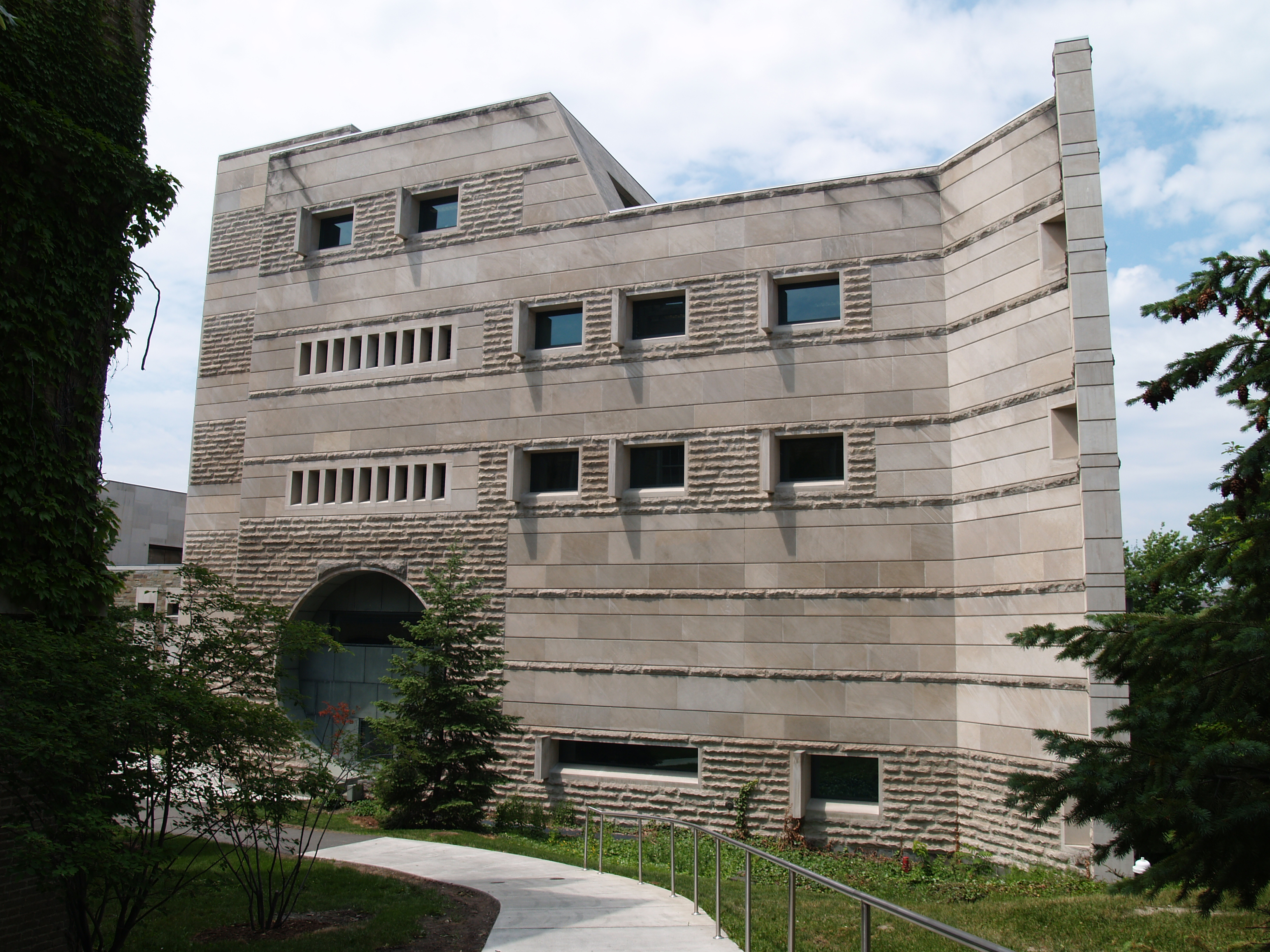 Ives Hall at the School of Industrial and Labor Relations at Cornell University; digital photograph created by Jesse Parr.